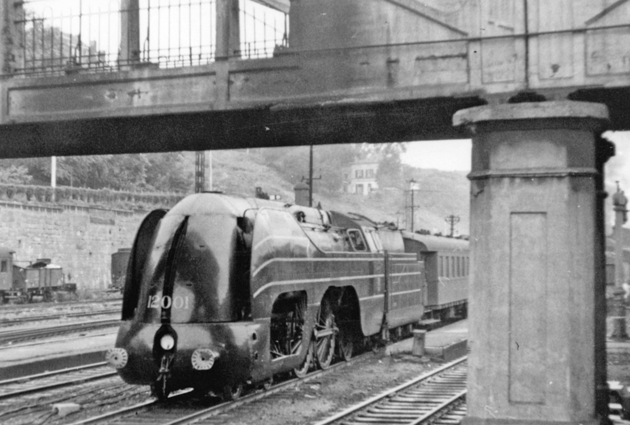 Express from Antwerp direction entering Bruxelles Nord, headed by streamlined 4-4-2 No. 12.001.